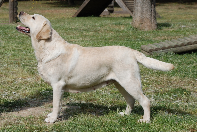 Yellow Labrador Retriever